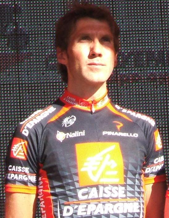 Named cyclist at the en:2009 Tour Down Under team presentation